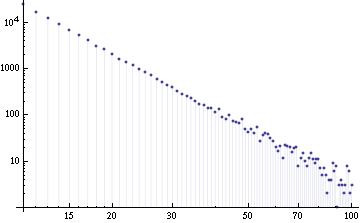 log-log plot of relative frequencies of 100000 random draws from a power-law distribution (exponent = 3)